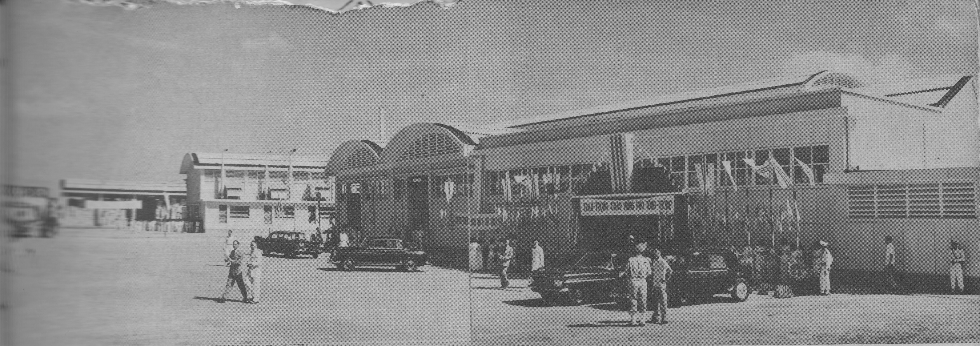 An-hao paper plant